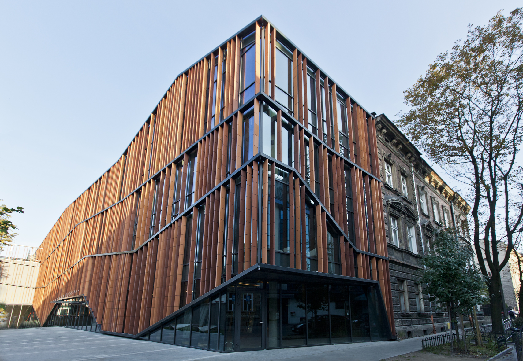 Malopolska Garden of Arts (2012) in Krakow, Poland, designed by Ingarden & Ewy Architects, mediatheque and performing arts centre managed by the Slowacki Theatre in Krakow